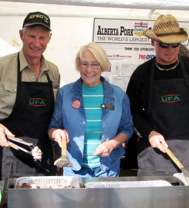 Bridget Pastoor serving pork